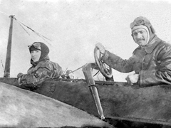 Belkıs Şevket Hanım and Yüzbaşı Fethi Bey on a Deperdussin